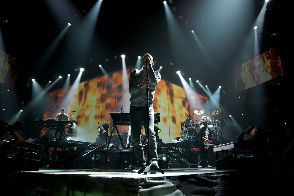 2010 European Tour